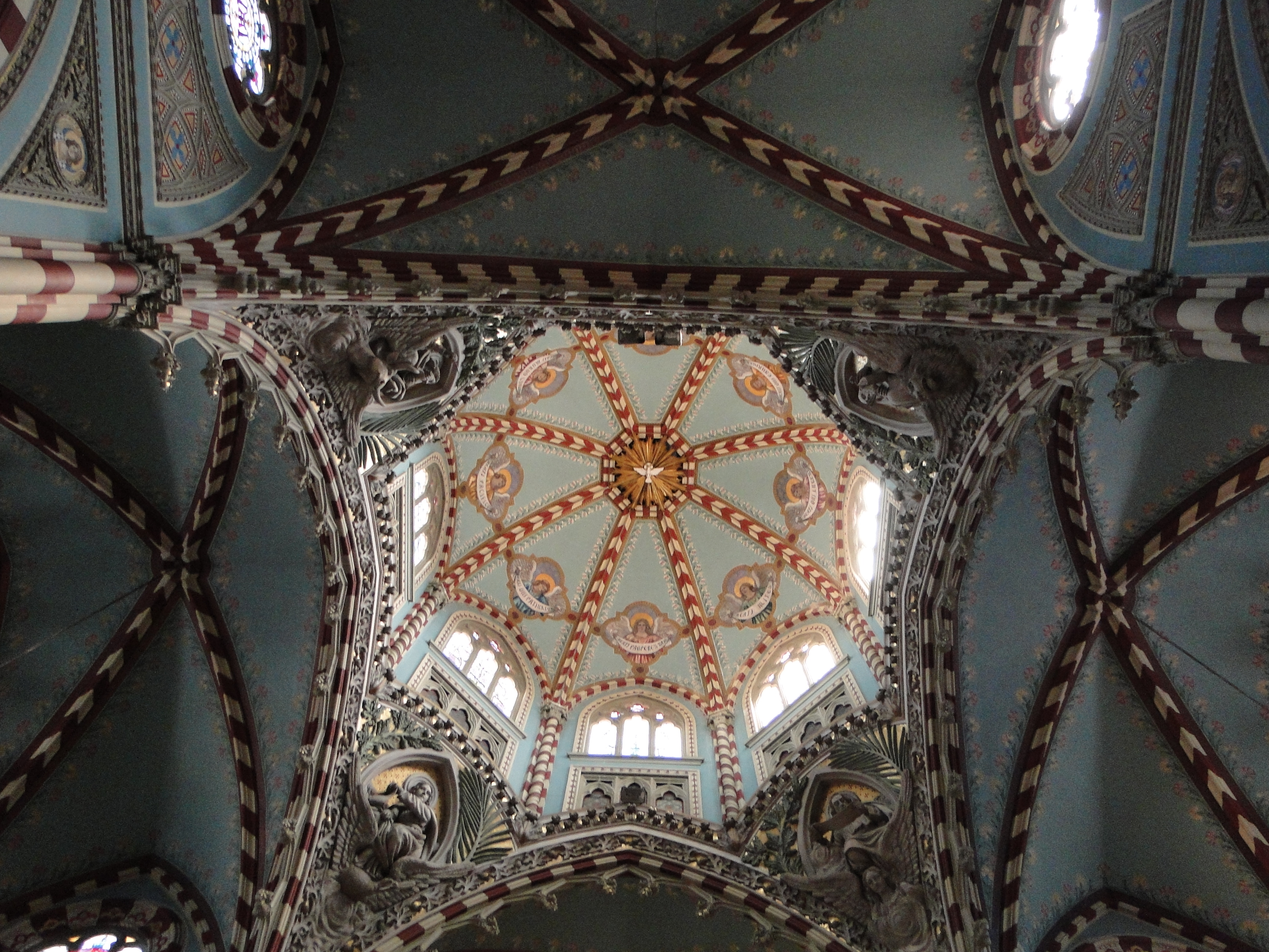 Cupol of the church Nuestra senore del Carmen in Bogota